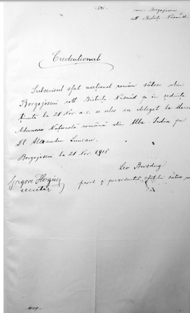 Mandate of the Romanian politician Alexandru Luncan, deputy in the Great National Assembly from Alba Iulia - Romania, 1918Română: Credențional pentru Alexandru Luncan, deputat în Marea Adunare Națională de la Alba Iulia, 1918